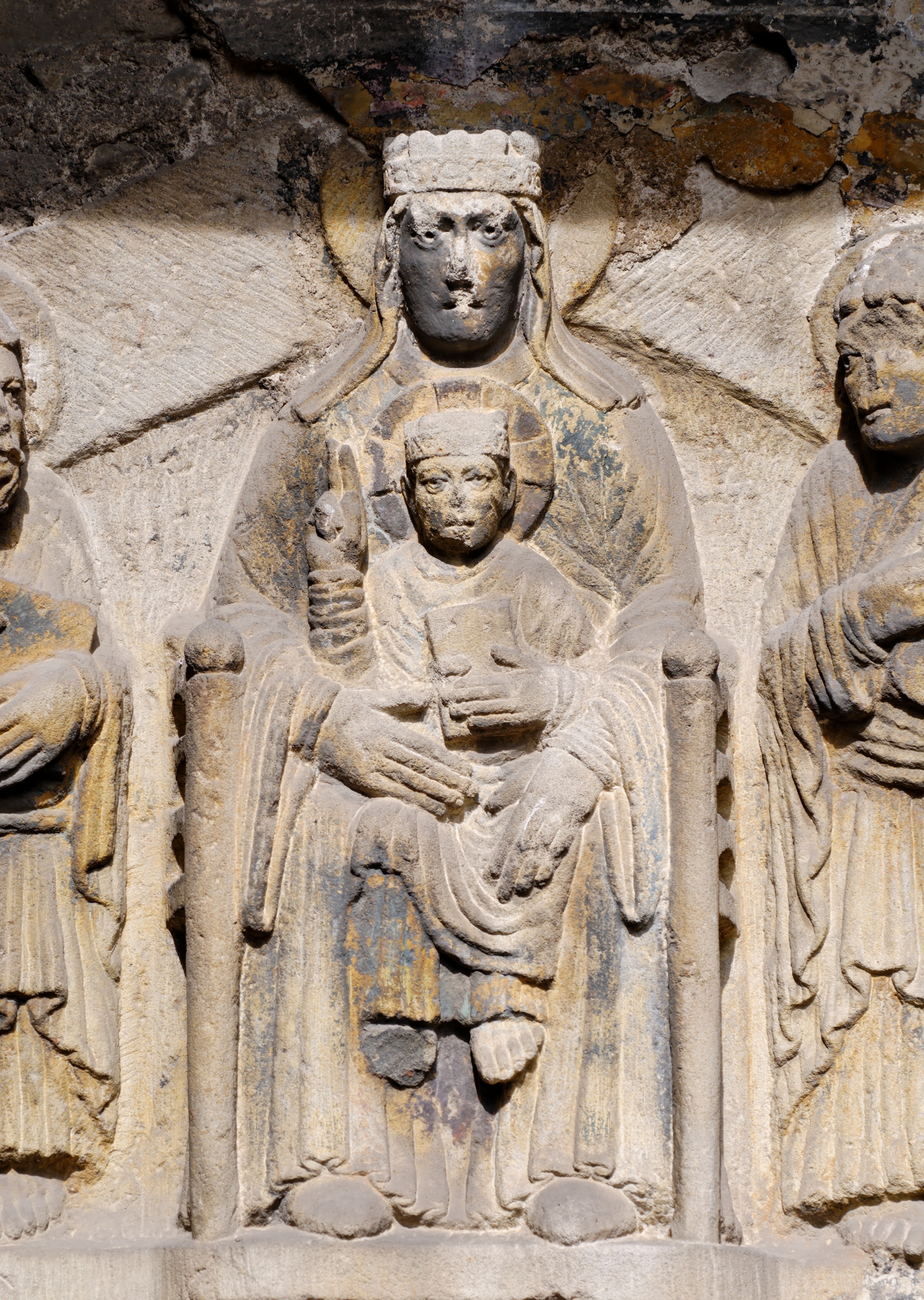 Madonna and Child. Sculpted lintel of the cloister door linking the abbey-church at Mozac (12th century) to the abbey.